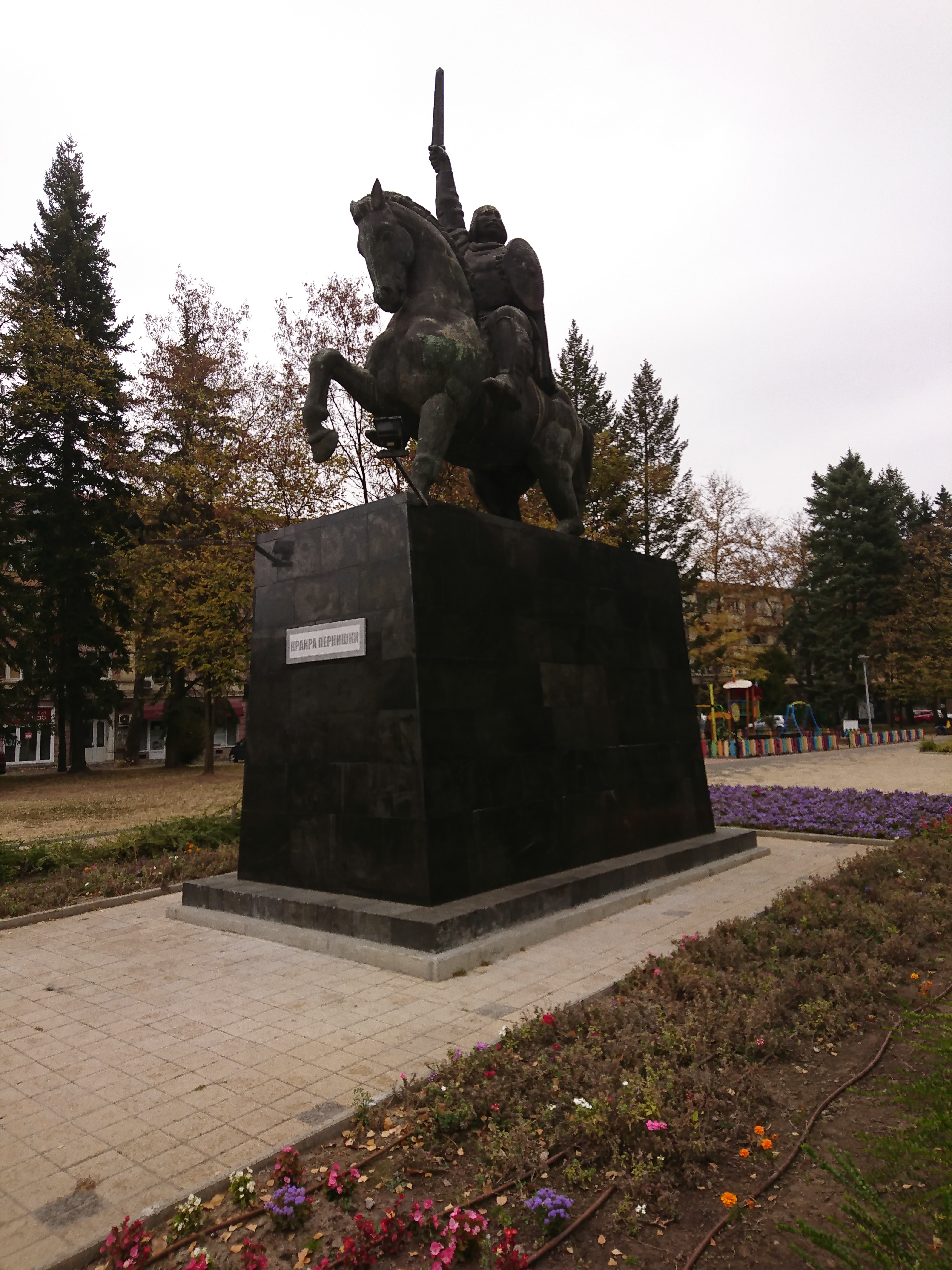 The monument of Krakra of Pernik in the town of Pernik.